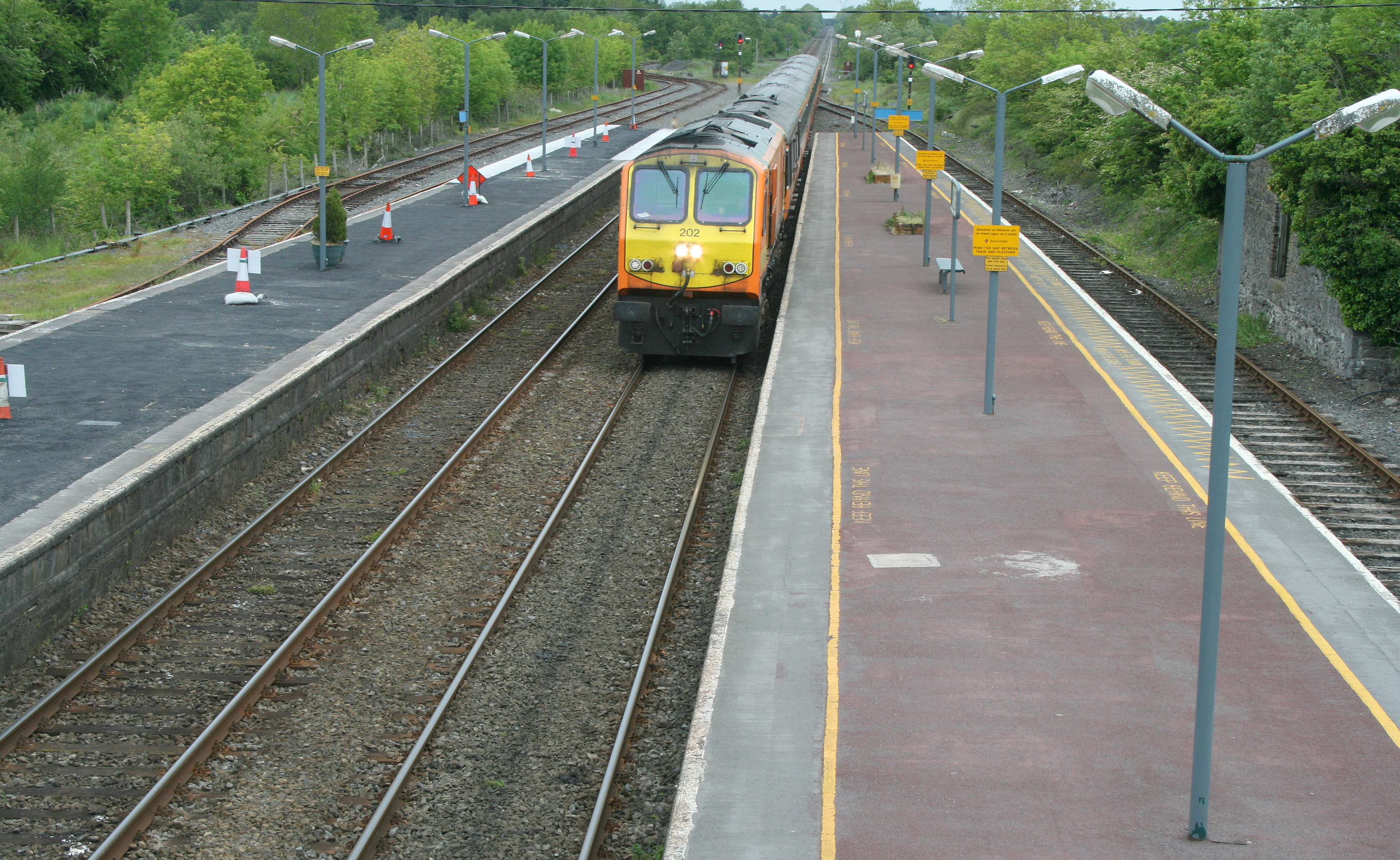 Ballybrophy Halt, near to Ballybrophy, Grange Beg and Green Cross Roads, Laois, Ireland. County Laois, where railways divide. (Yoooookay - I'm not a rail expert!)